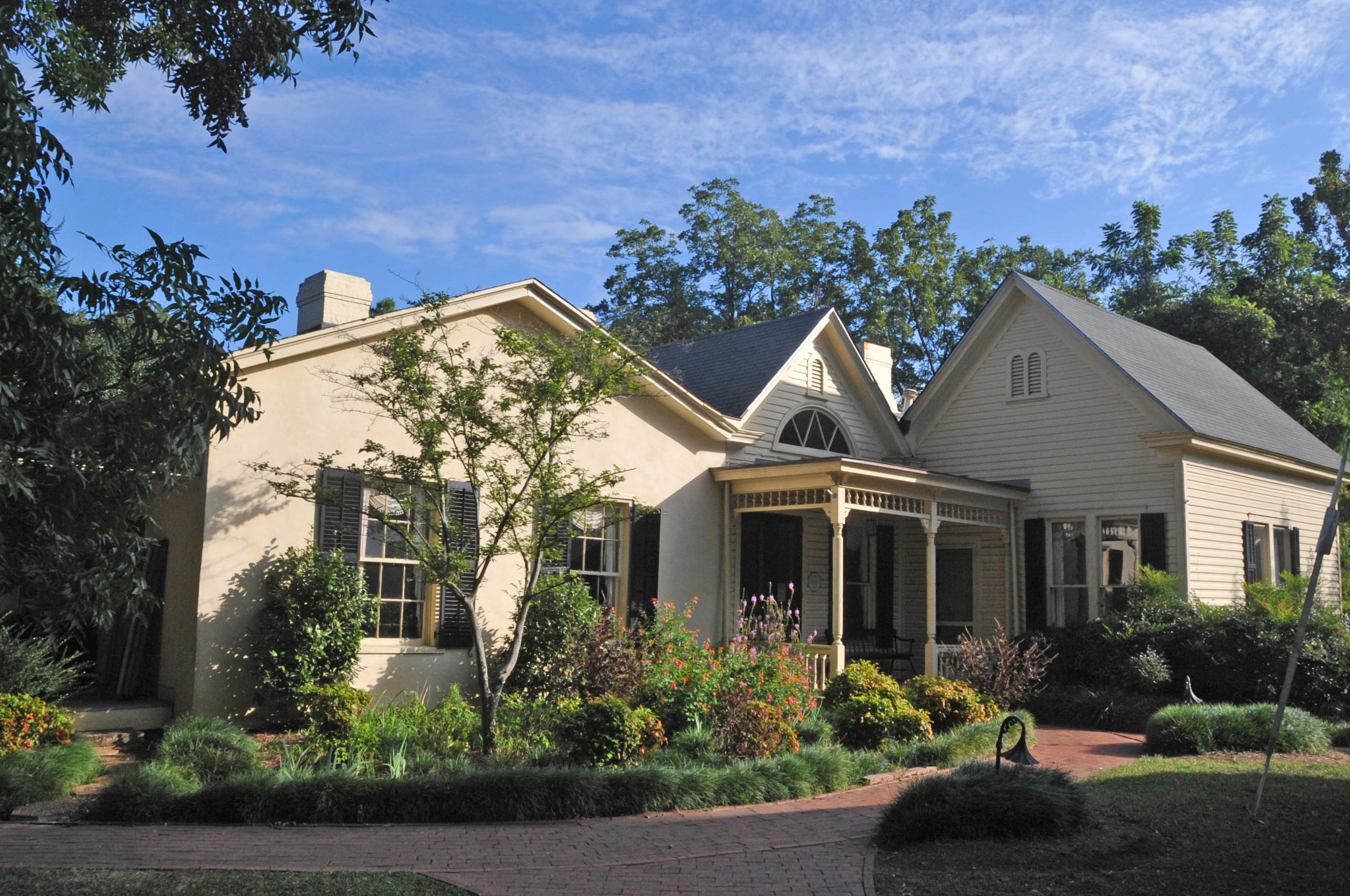 HORACE WILLIAMS HOUSE; 1854; HE WAS A PROFESSOR OF PHILOSOPHY AT THE UNIVERSITY OF NORTH CAROLINA AT CHAPEL HILL FROM 1890 TO 1940. THIS IS PROBABLY THE MOST PROMINENT HOUSE IN THE DISTRICT AND HAS BROWN SIGNS DIRECTING VISITORS TO TGHE HOUSE. IT IS OPEN TO THE PUBLIC.